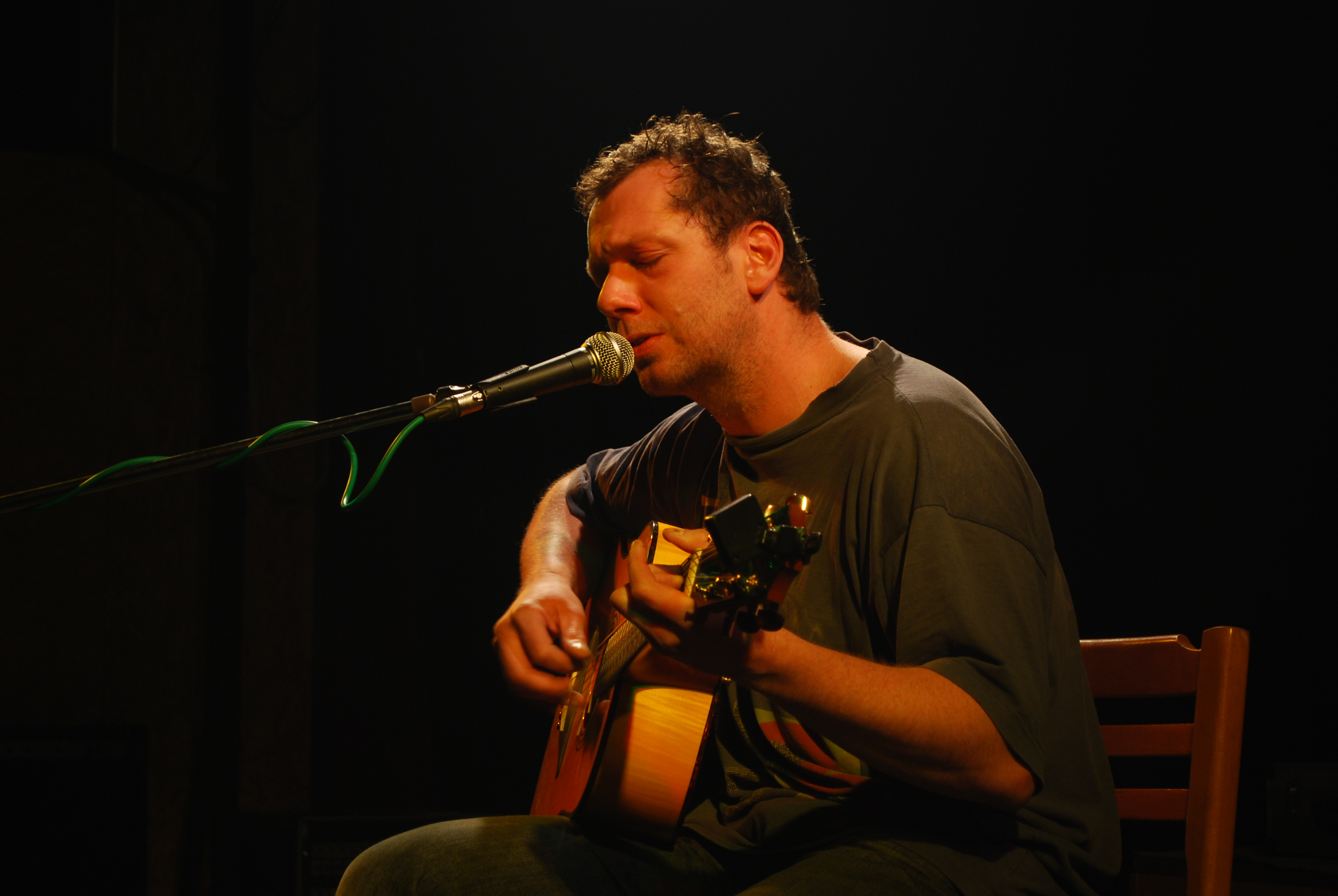 Czech singer and poet Xavier Baumaxa in club "Divadlo Pod Čarou" in Písek during his performance, Czech Republic. The artist orally agreed with usage of his portrait